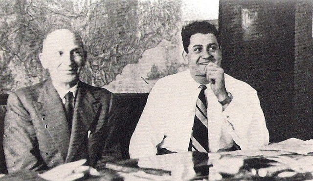 Vittorio Jano (1891–1965) and Gianni Lancia (1924–2014). Jano worked for Alfa Romeo until 1937, then for Lancia until 1955 when Lancia quit racing (and Jano moved on to work for Ferrari), while Gianni Lancia headed the Lancia automake until 1955 when he sold. So this pictures is taken before 1955/56 some time.